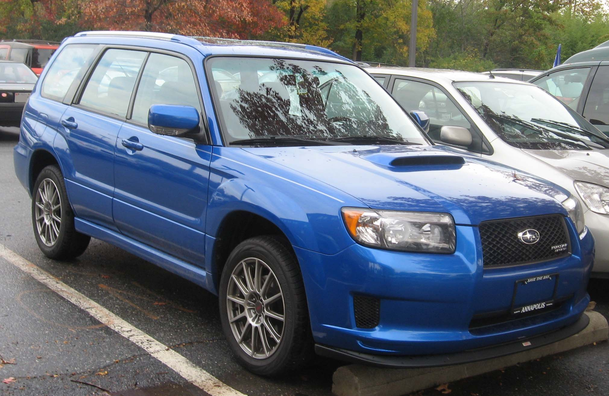 2006-2008 Subaru Forester photographed in College Park, Maryland, USA.